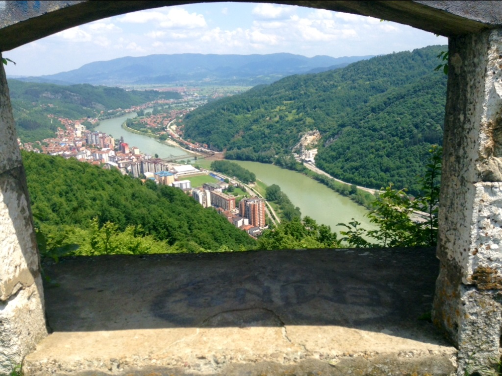 Zvornik fortress (Kula grad), 3 June 2014